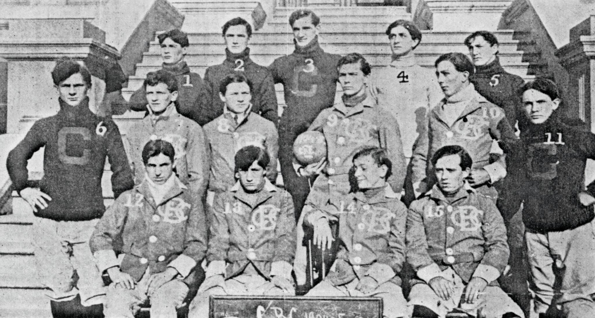 The team from the Christian Brothers College that represented the United States at the Olympics in St. Louis.